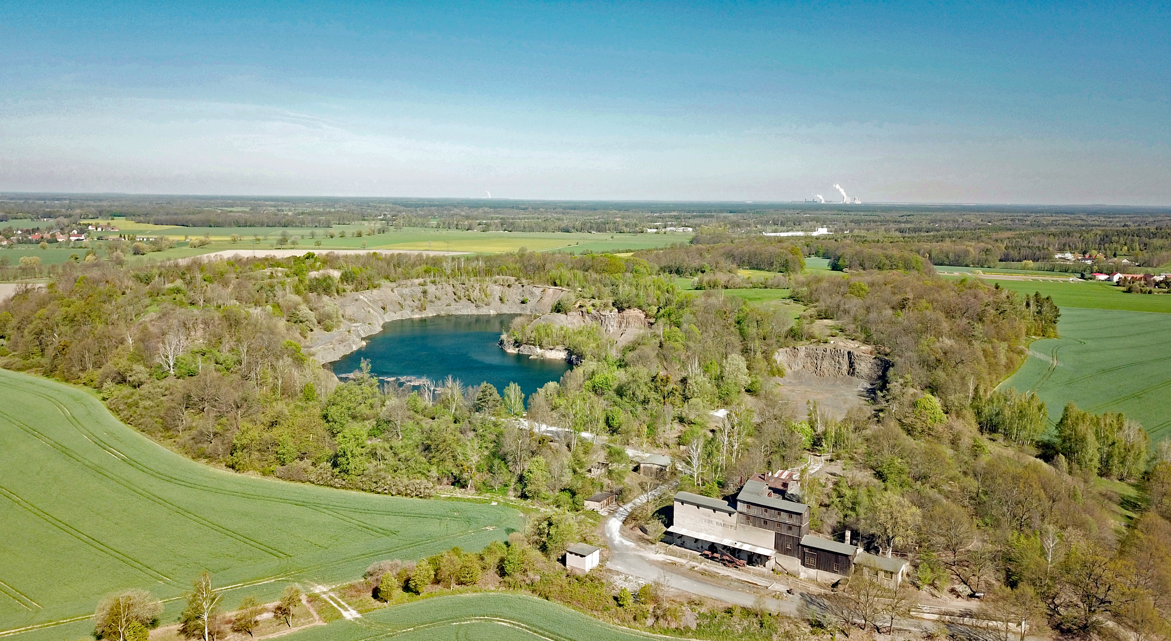 Basalt quarries in Baruth, Malschwitz, Saxony, Germany Hornjoserbsce: Powětrowy wobraz Bartskeje bazaltownje